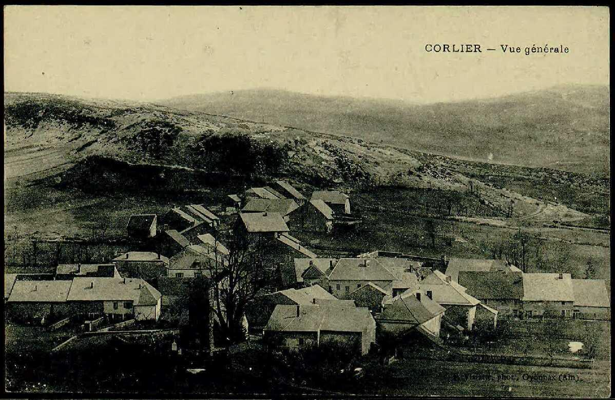 Vue de Corlier